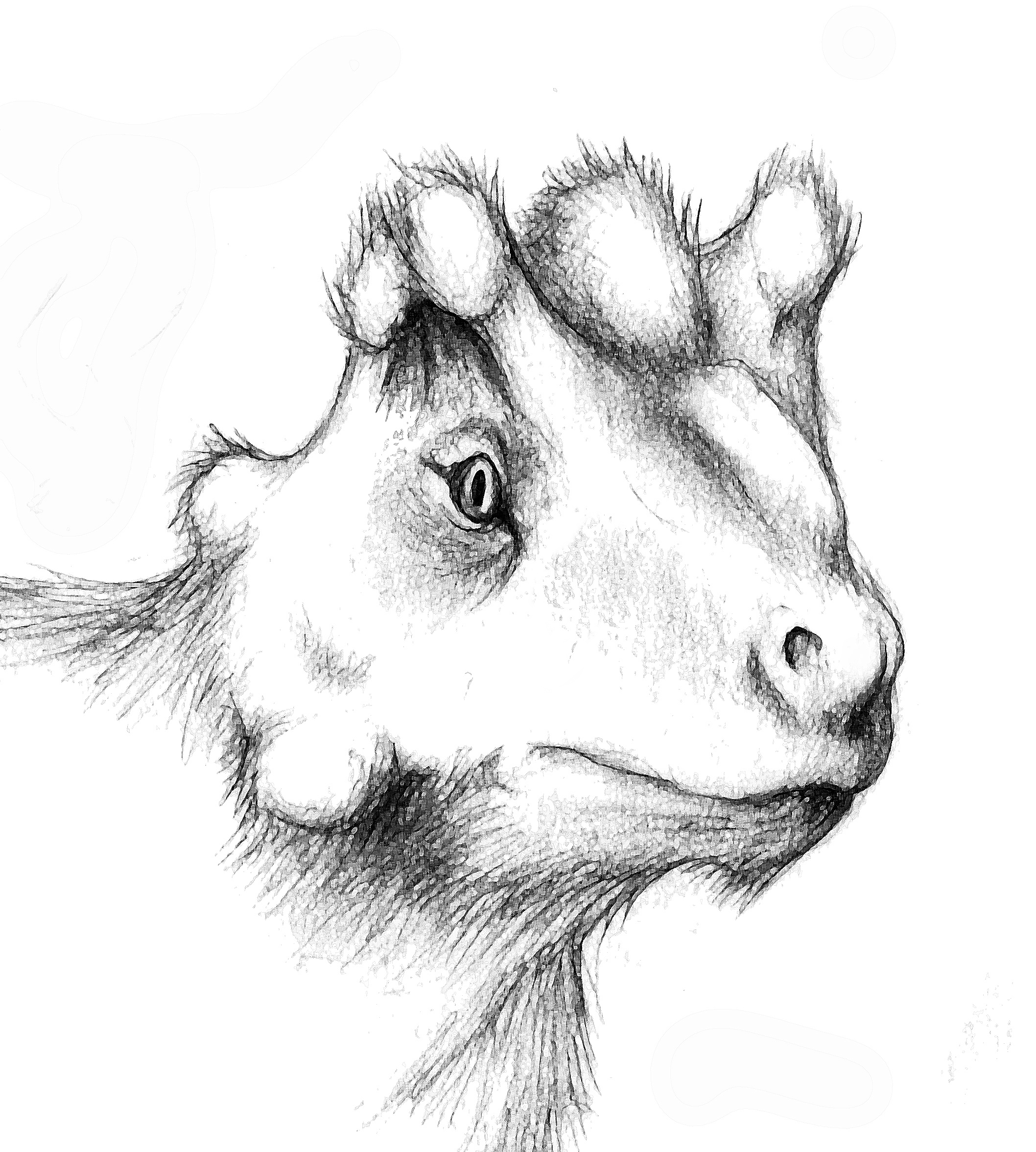 A sketch reconstruction of a head of burnetiamorph Lende chiweta, based on the skull found in the year 1992 in Malawi.